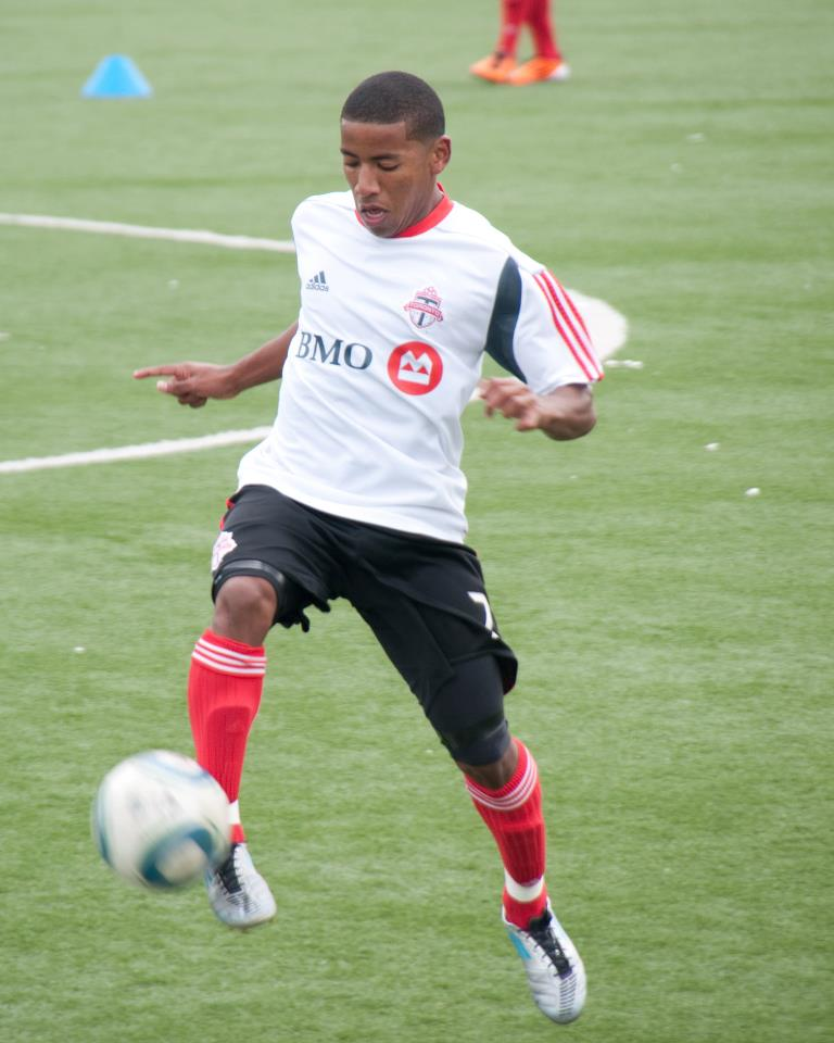 Joao Plata at a Toronto FC Community Practice